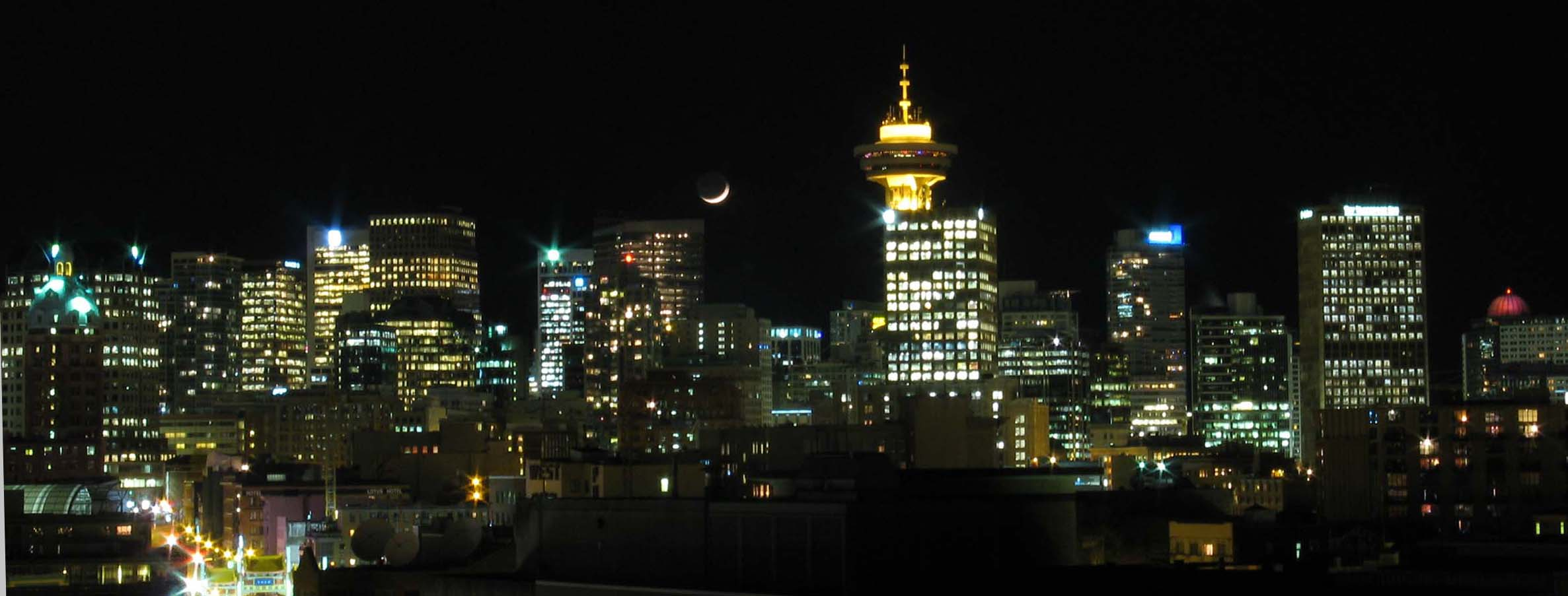 Downtown Vancouver at night. Taken by me, 18 April 2007